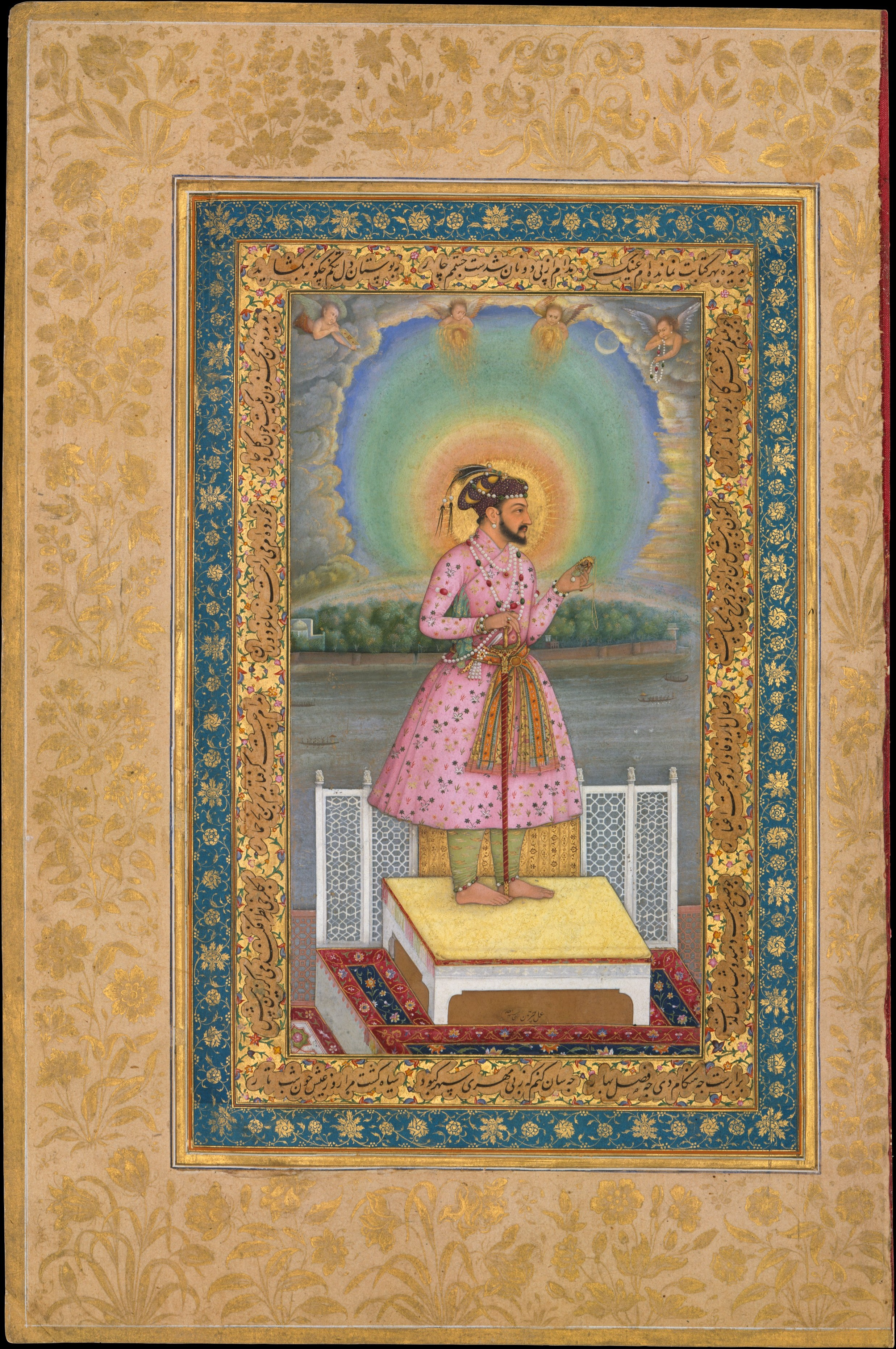 Chitarman. Shah Jahan on a Terrace, Holding a Pendant Set With His Portrait, Folio from the Shah Jahan Album 1630-50 Metmuseum